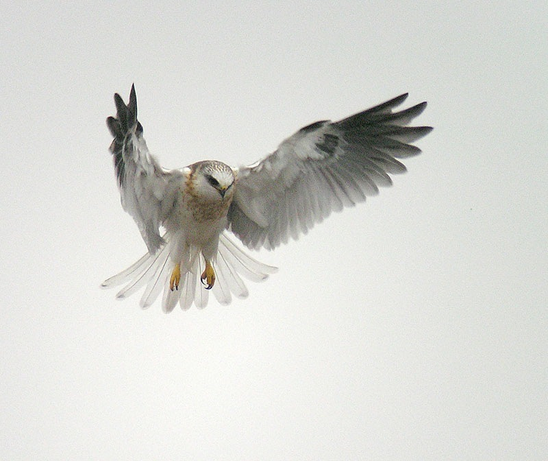 Juvenile White-tailed Kite Elanus leucurus, Las Gallinas, San Rafael, California. Digiscoped, using the Bogen 501 tripod head to follow the young kite as it hovered about 40-50 meters away. 50 per cent crop, levels. Taken with the Nikoin 8400, ISO 100, f 3.1, 1/1126 sec, 9.5mm zoom (green zone).